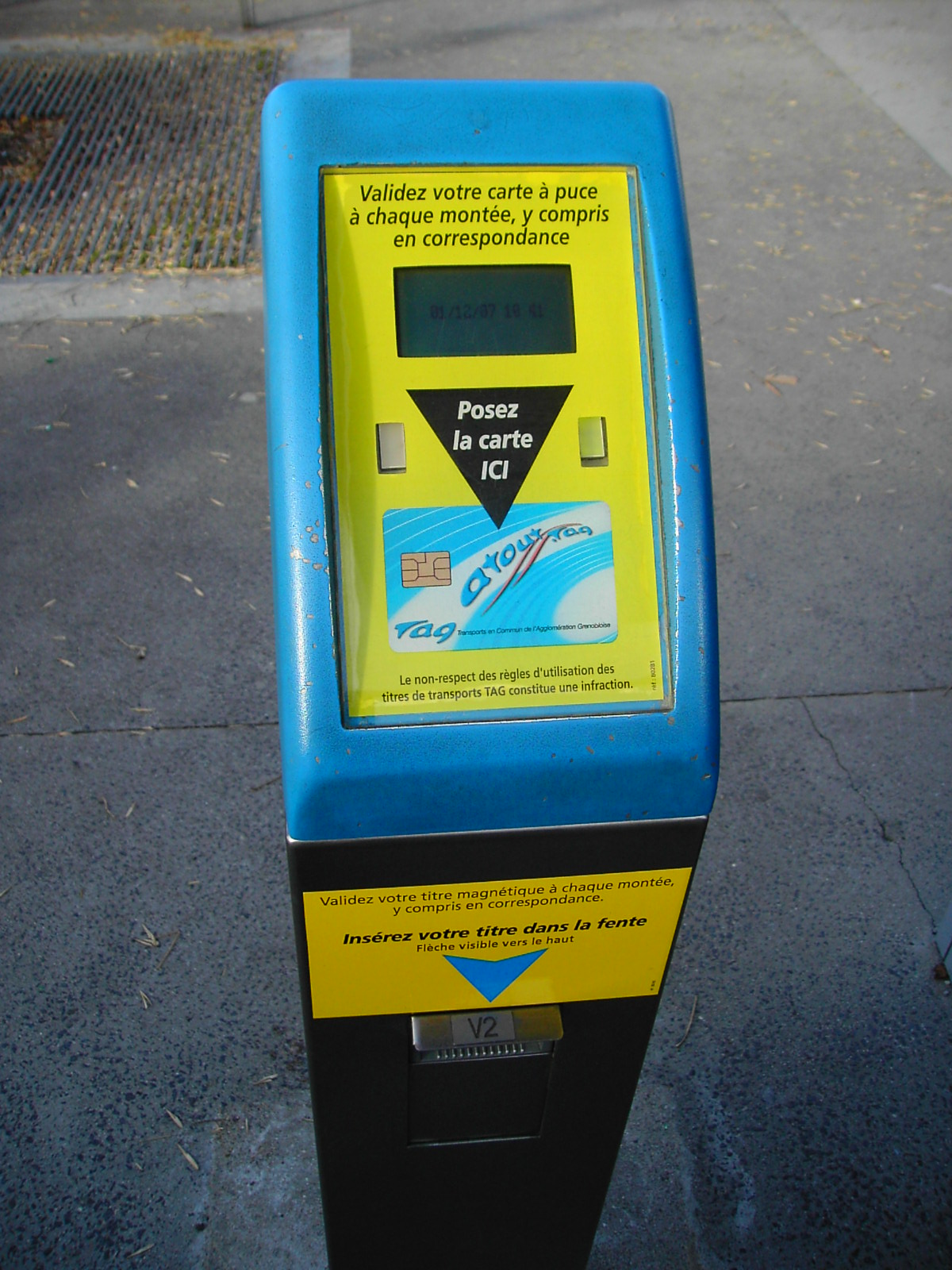 Composteur tramway Grenoble